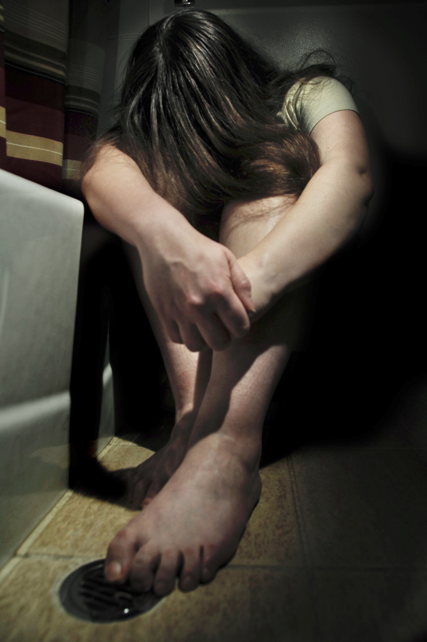 Sexual assault is defined as intentional sexual behavior, characterized by the use of force, physical threat or abuse of authority; or when the victim does not or cannot consent. Because of the jarring statistics released in 2011 it’s an act that the military has taken a keen interest in eliminating.